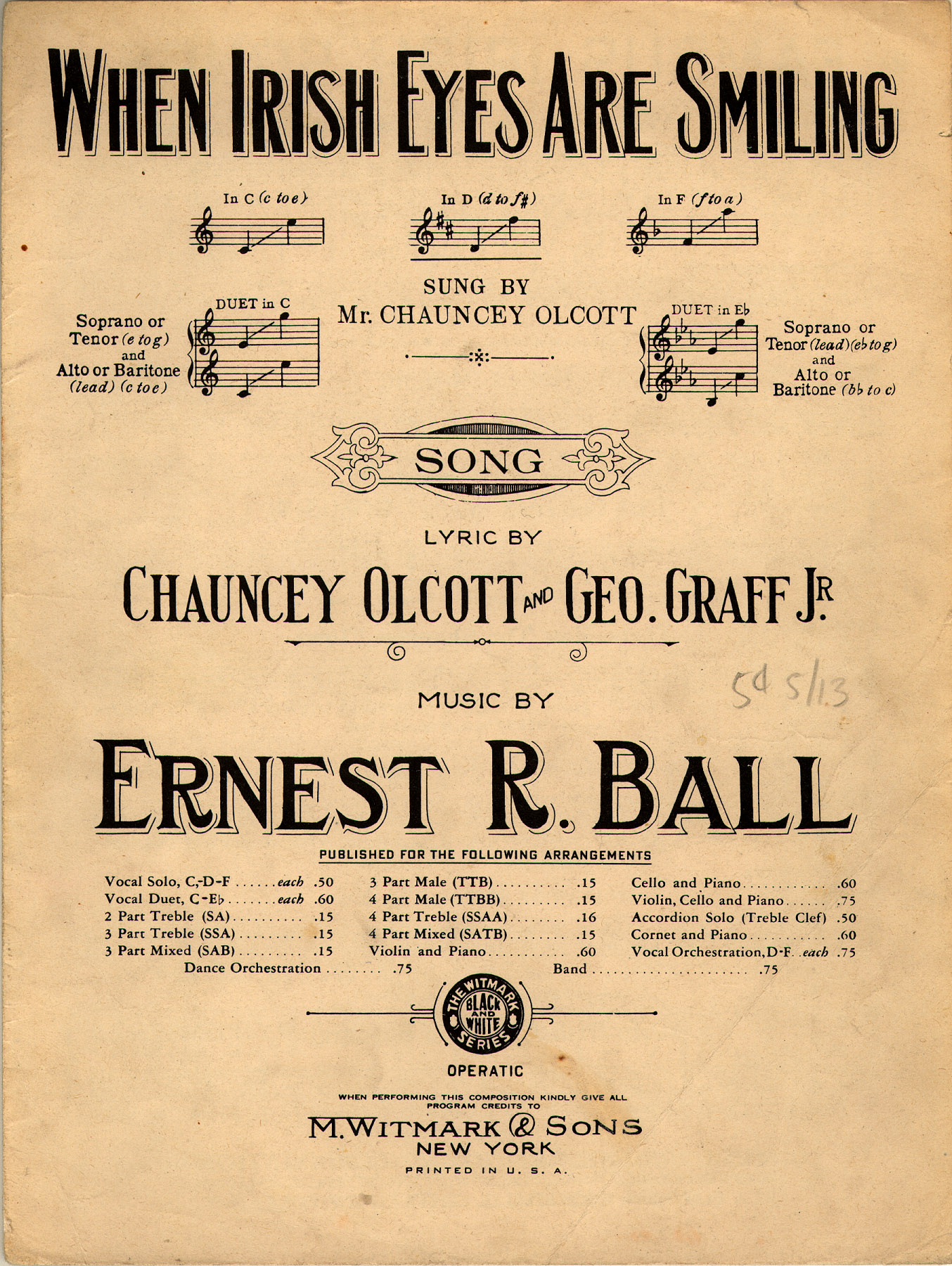 "When Irish Eyes Are Smiling" sheet music, 1912